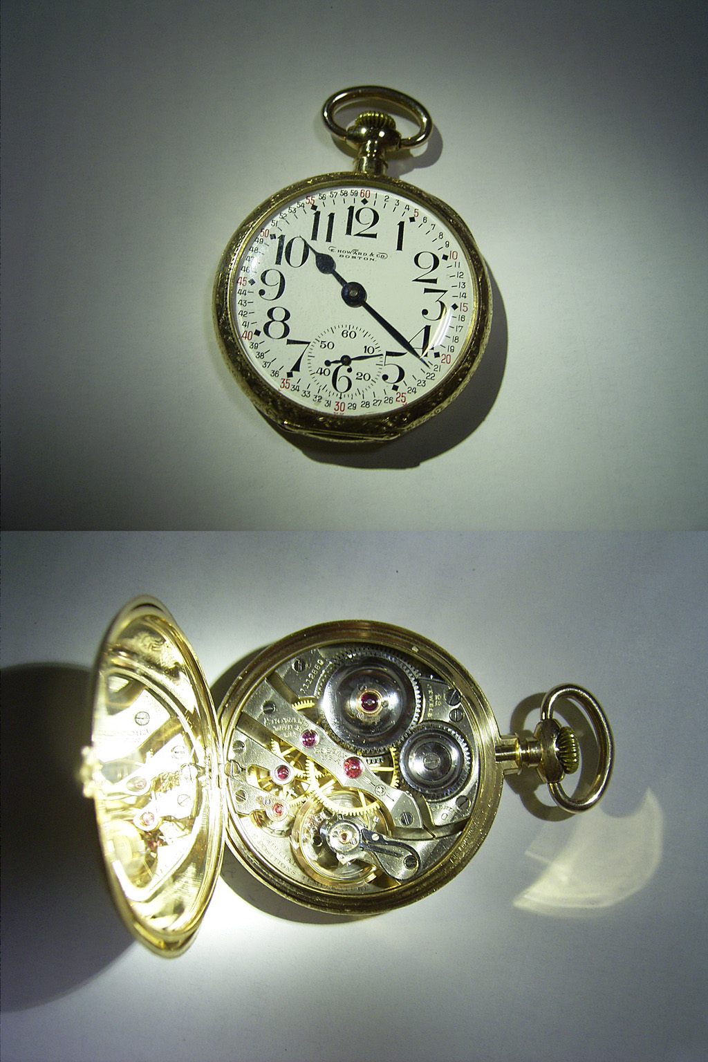 Pocket watch, Howard Series0 23J Jeweled Barrel